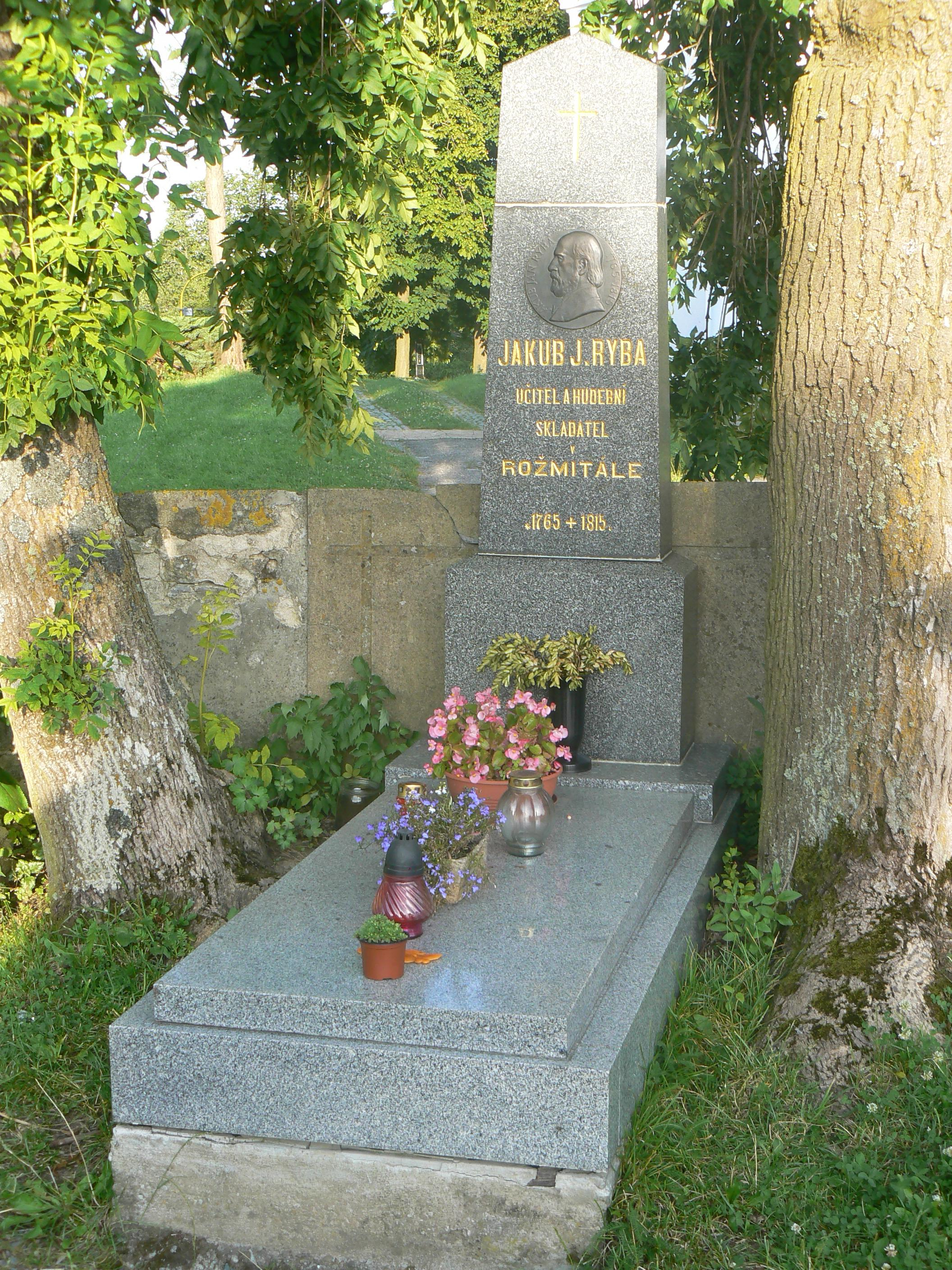 Grave of Jakub Jan Ryba (1765 - 1815) in Starý Rožmitál, Příbram District, Czech Republic